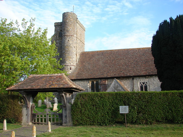 Swingfield Church St Peter's church at Swingfield that has connections to the Knights Templar. This 12th Century church is now redundant.